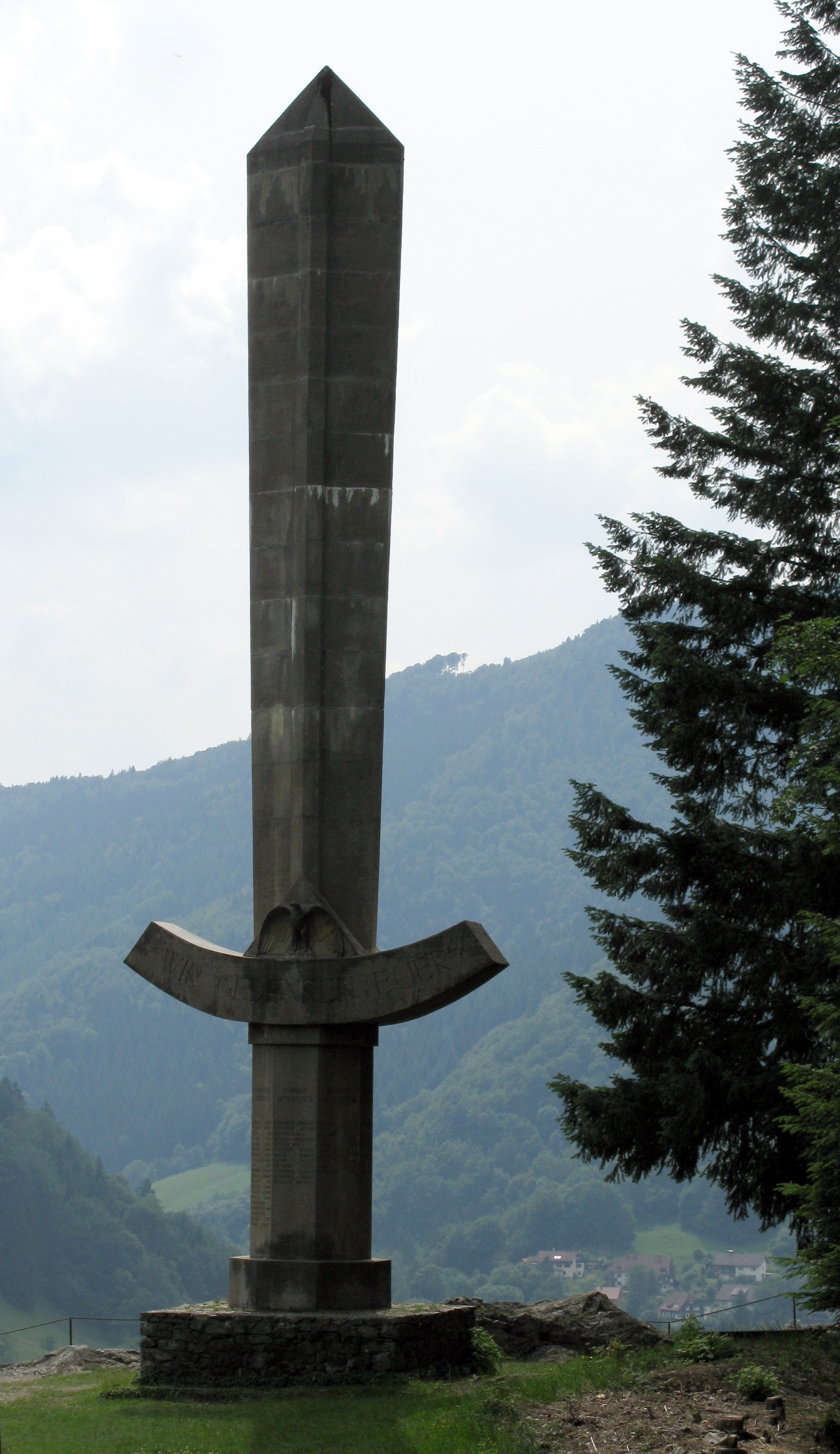 Todtnau soldiers' monument created by Hugo Knittel